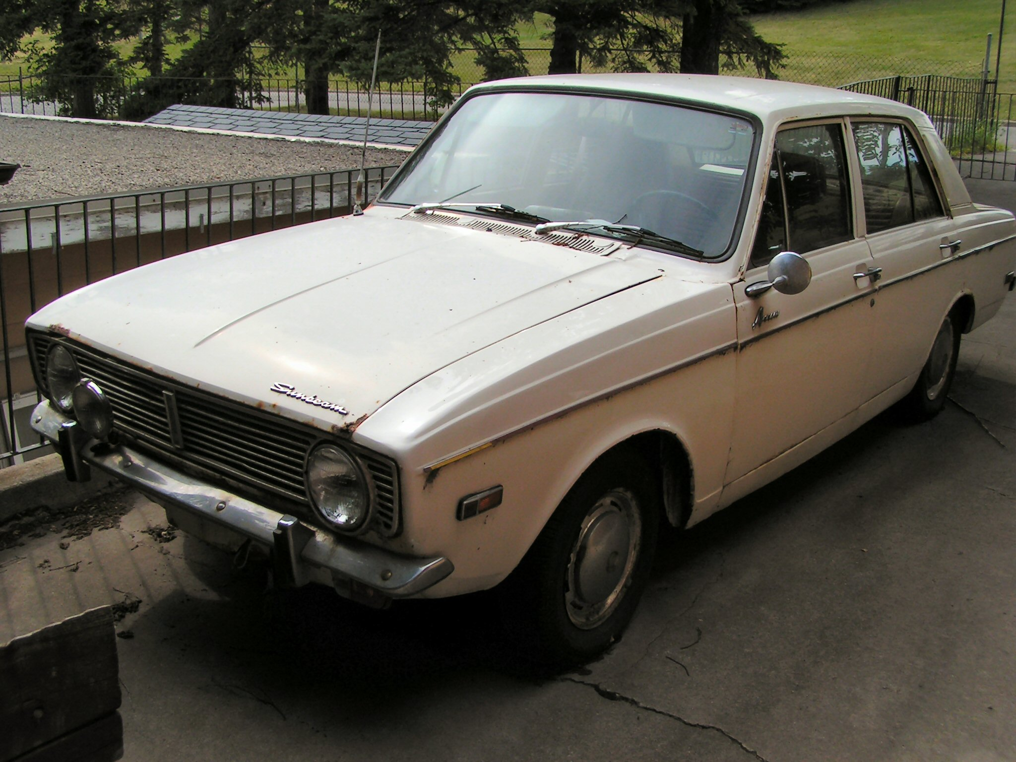 The Sunbeam Arrow was based on the UK's Hillman Minx Arrow which its self was a badge engineered version of the Hillman Hunter. This one has an automatic gearbox but a aluminum performance head. The other side of the car is sadly quite rusty.